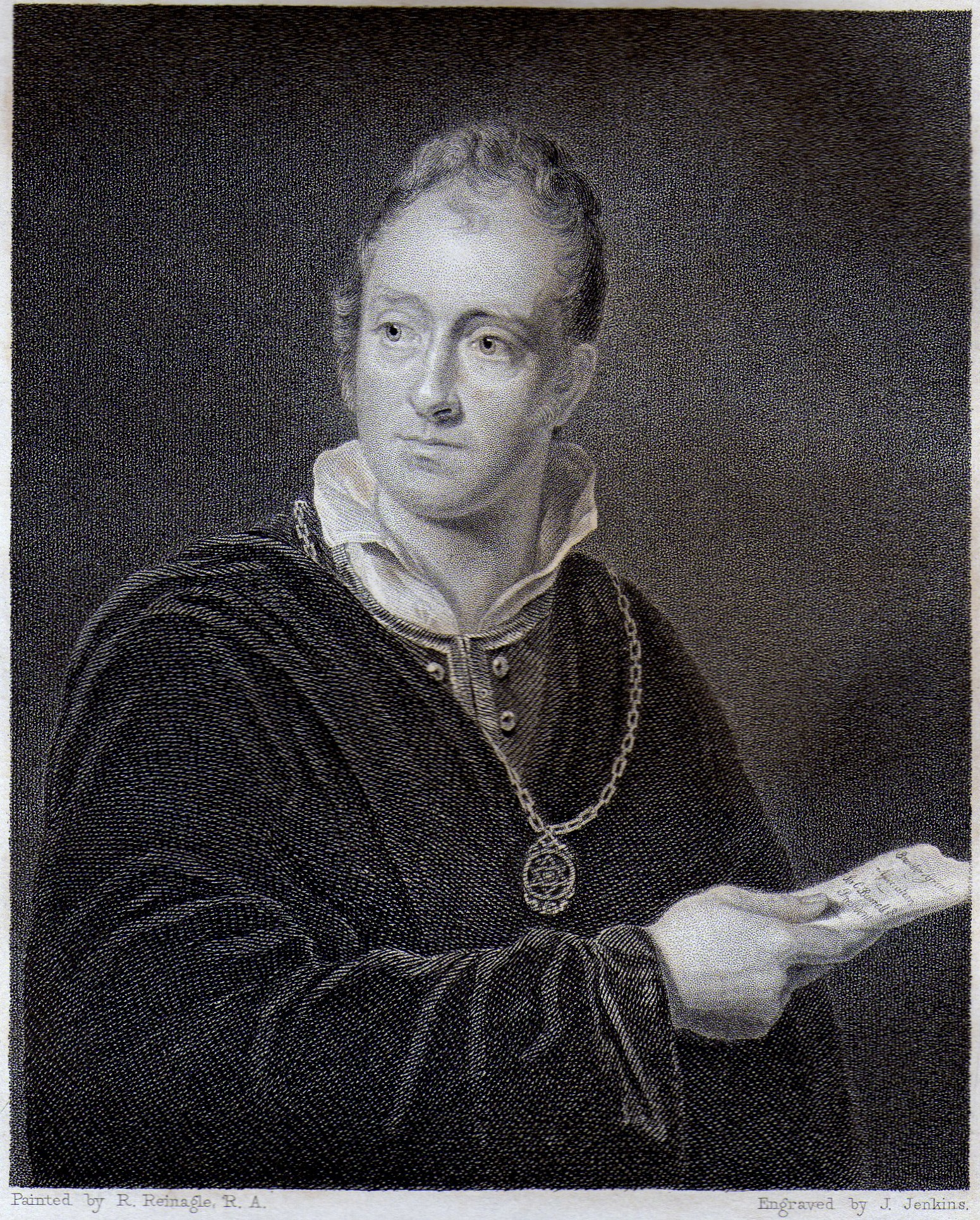 Sir Charles Merrik Burrell Bart. MP. Early 19th century English politician. Published 1835 in The History, Antiquities and Topography of the County of Sussex by Thomas Walker Horsfield F.S.A.